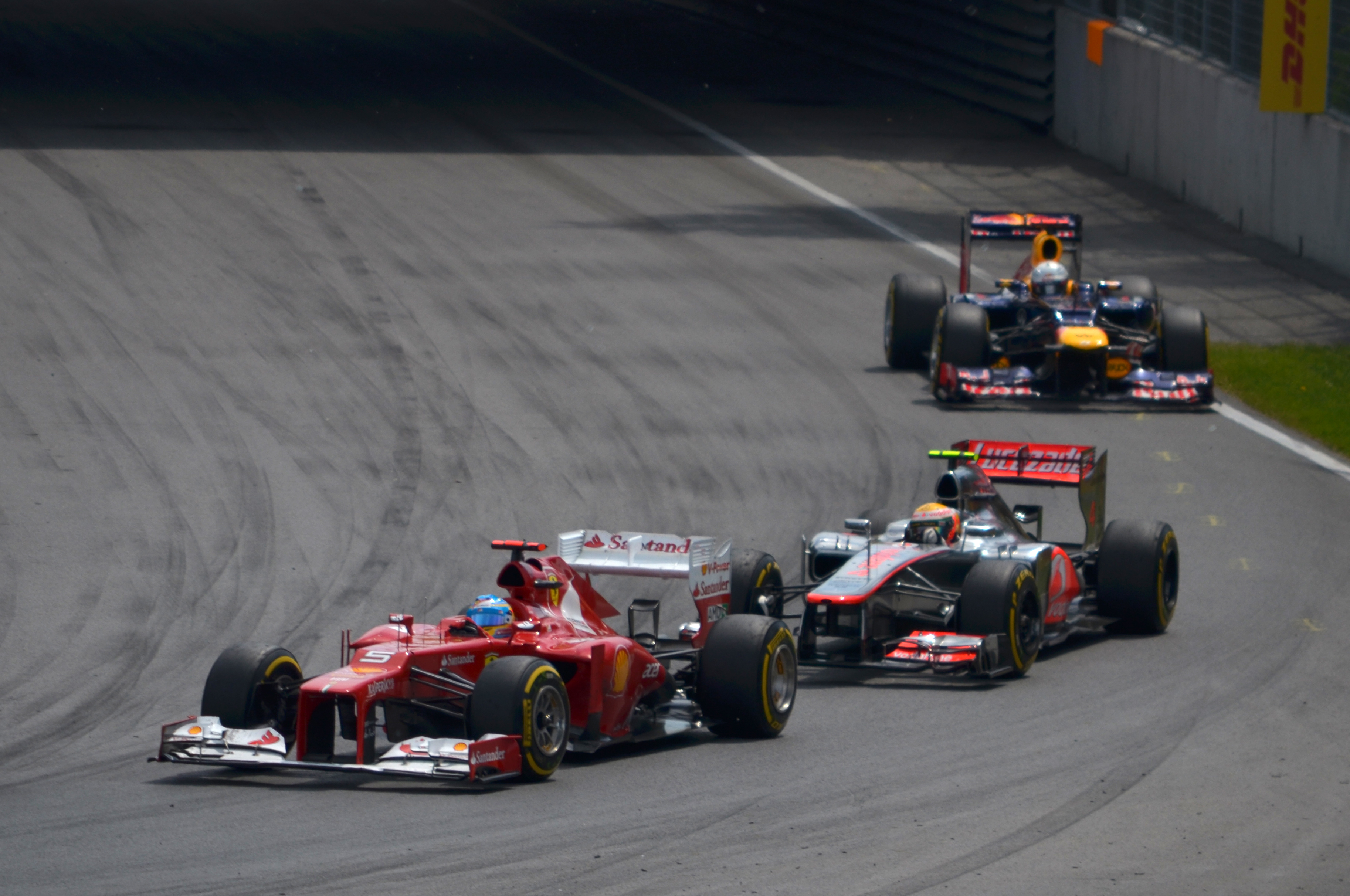 Fernando Alonso in the Ferrari F2012 leads Lewis Hamilton in the McLaren - Mercedes MP4-27 and Sebastian Vettel in the Red Bull - Renault RB8 after the first round of pit stops on lap 20 of the 2012 Canadian Grand Prix at Circuit Gilles Villeneuve.